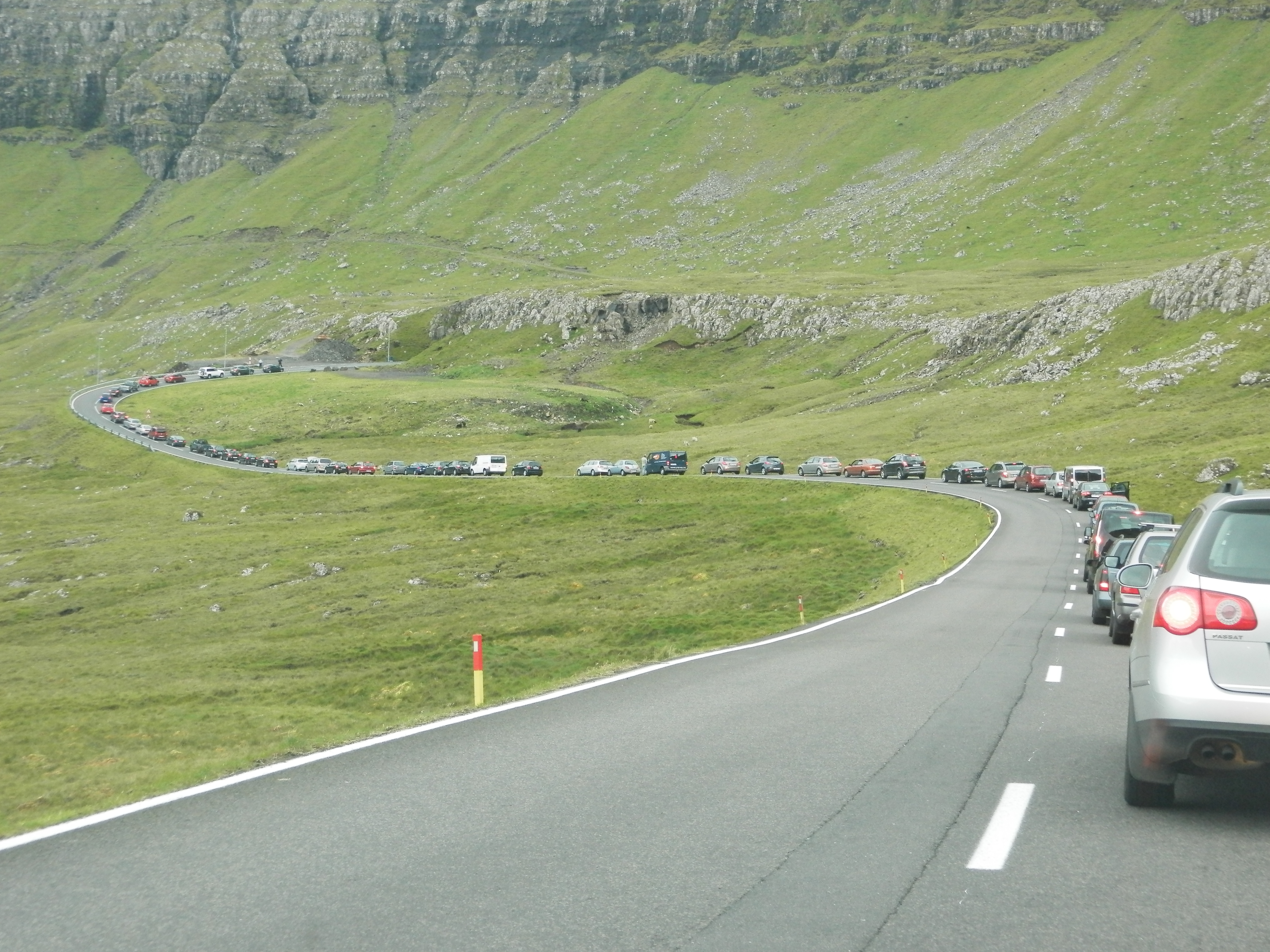 Hvalba, Faroe Islands on 12 August 2014.